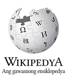 Wikipedia logo 2.0 (mk) (identical to .sr version, but separate mk version has to exist (see Wikipedia/2.0)